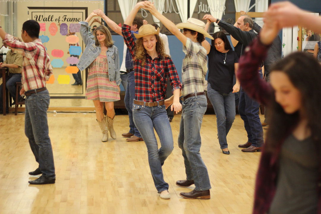 Country Dancing At The Arthur Murray Dance Studio Located In The Woodlands TX